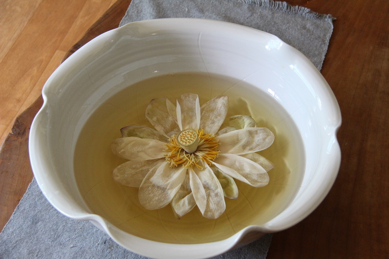 Yeonkkot-cha (lotus flower tea)